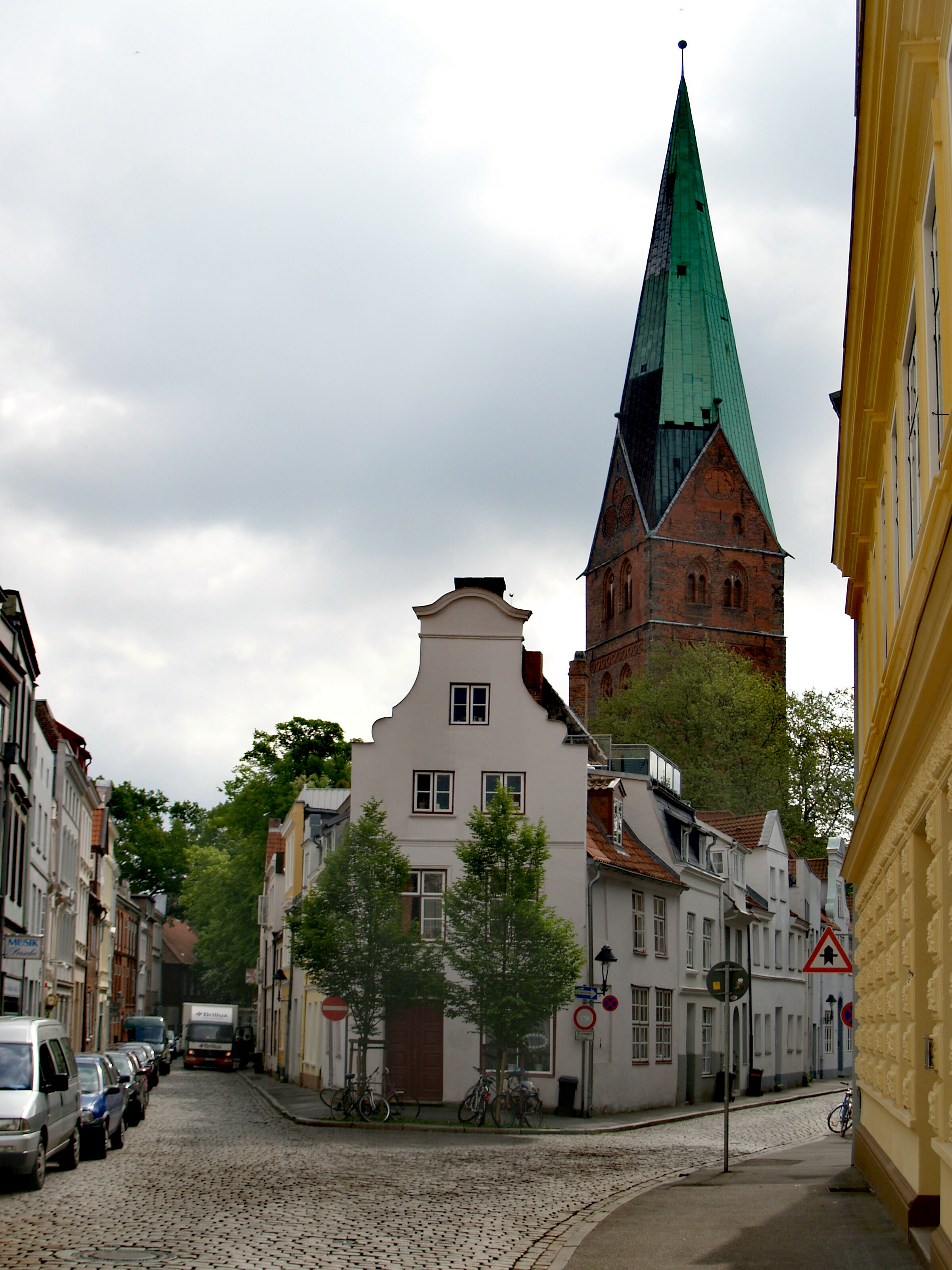 St. Aegidien churchtower in Lübeck, Germany